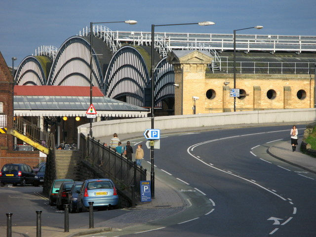 York Train Station The inner ring road passes the York Railway Station, a main-line railway station on the East Coast Main Line between London's King's Cross station and Edinburgh's Waverley Station. The present station was designed by the North Eastern Railway architect Thomas Prosser and William Peachey and was completed in 1877. Them it had 13 platforms and was the largest in the world. The building was damaged during the Second World War and extensively repaired in 1947.